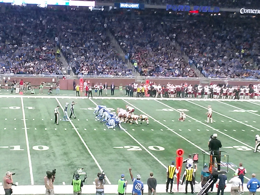 NFL professional football special teams